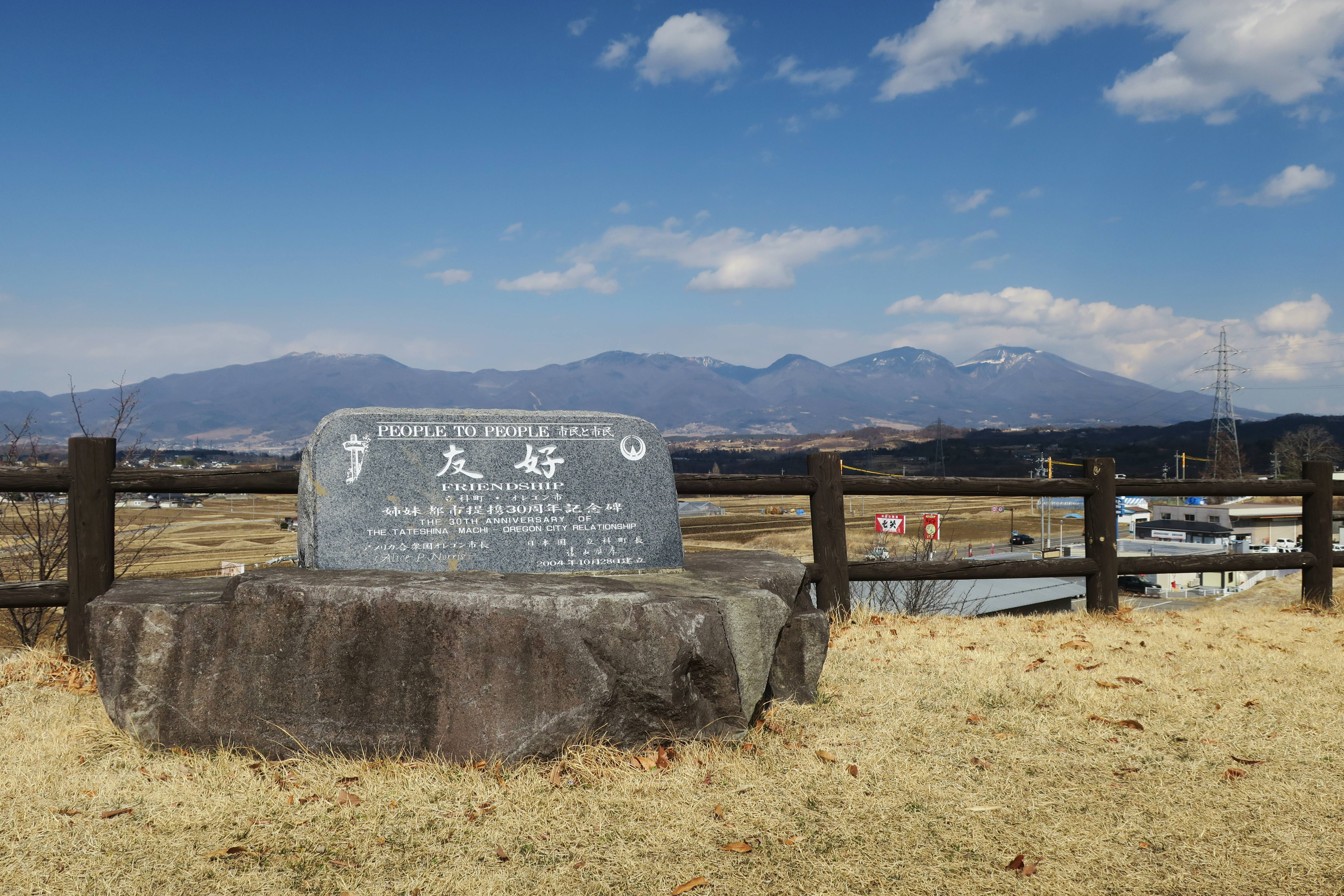 The Tateshina Machi - Oregon City Relationship monument.